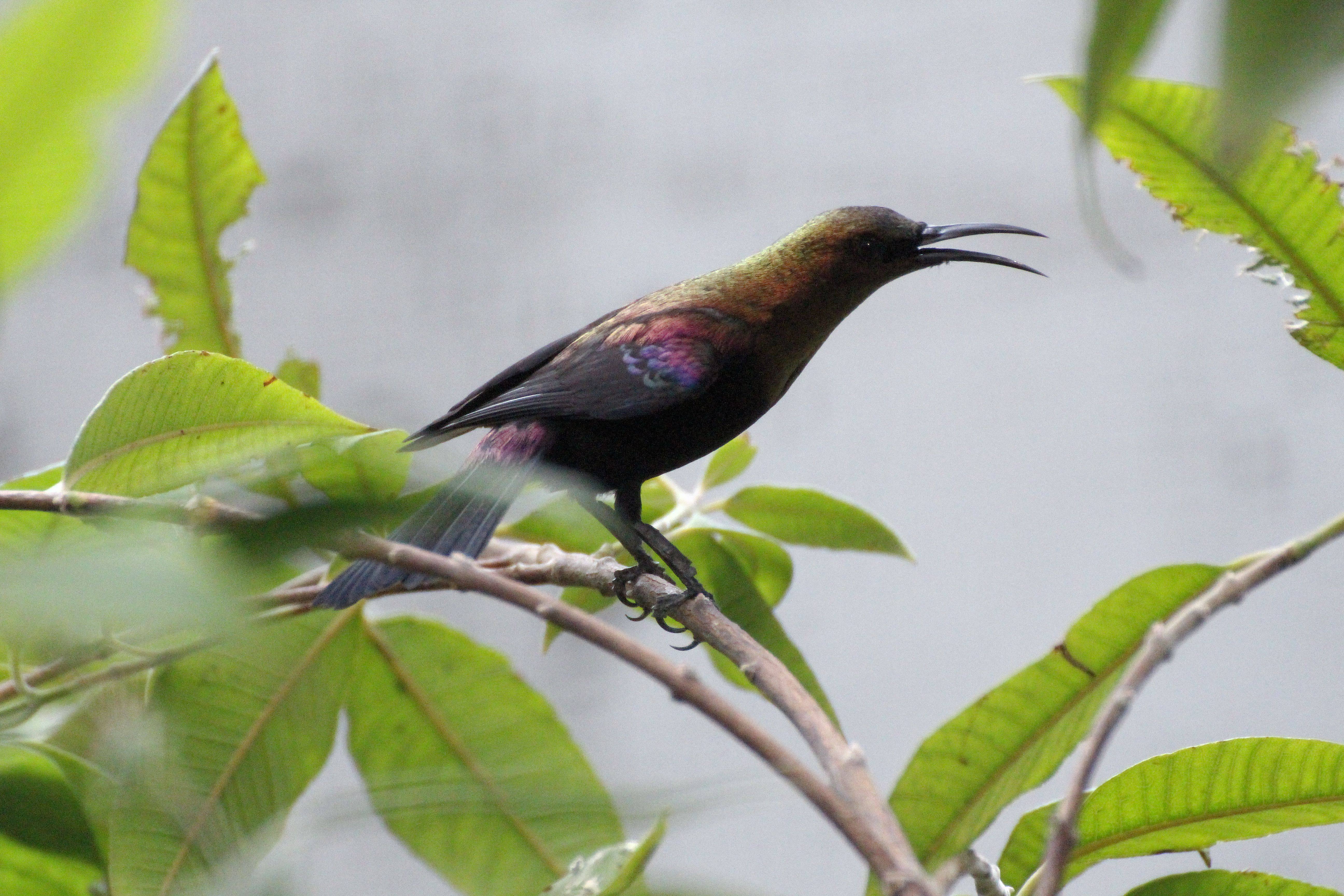 Male Cinnyris cupreus (Copper Sunbird) perching and singing. Photographed at Zoo Berlin